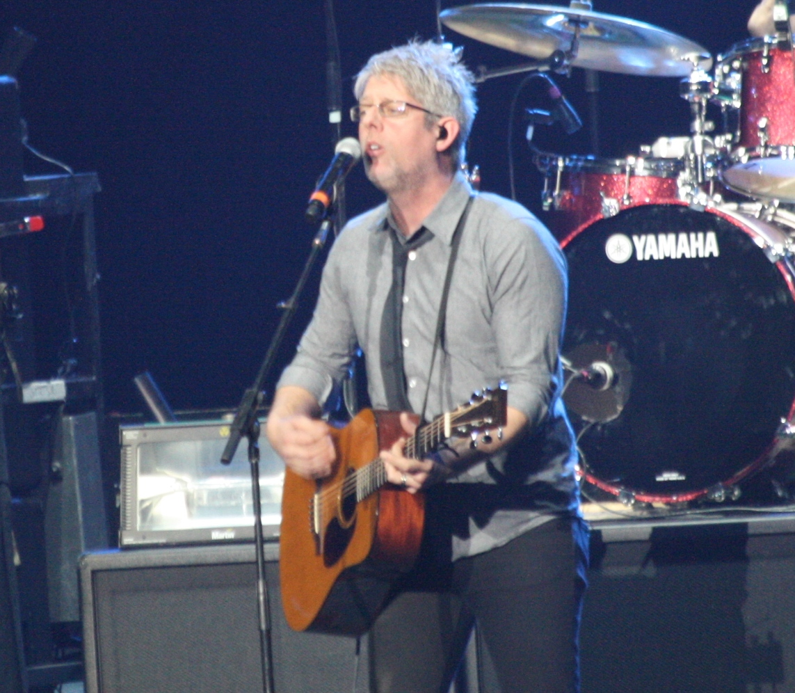 Canadian Christian music singer Matt Maher performing on the Road and Worship Road Tour at the Resch Center in Green Bay, Wisconsin.